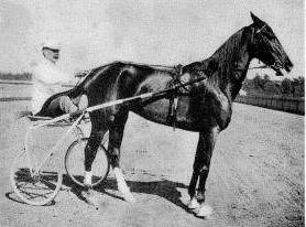 1903 image of lou dillon winning the Webster cup